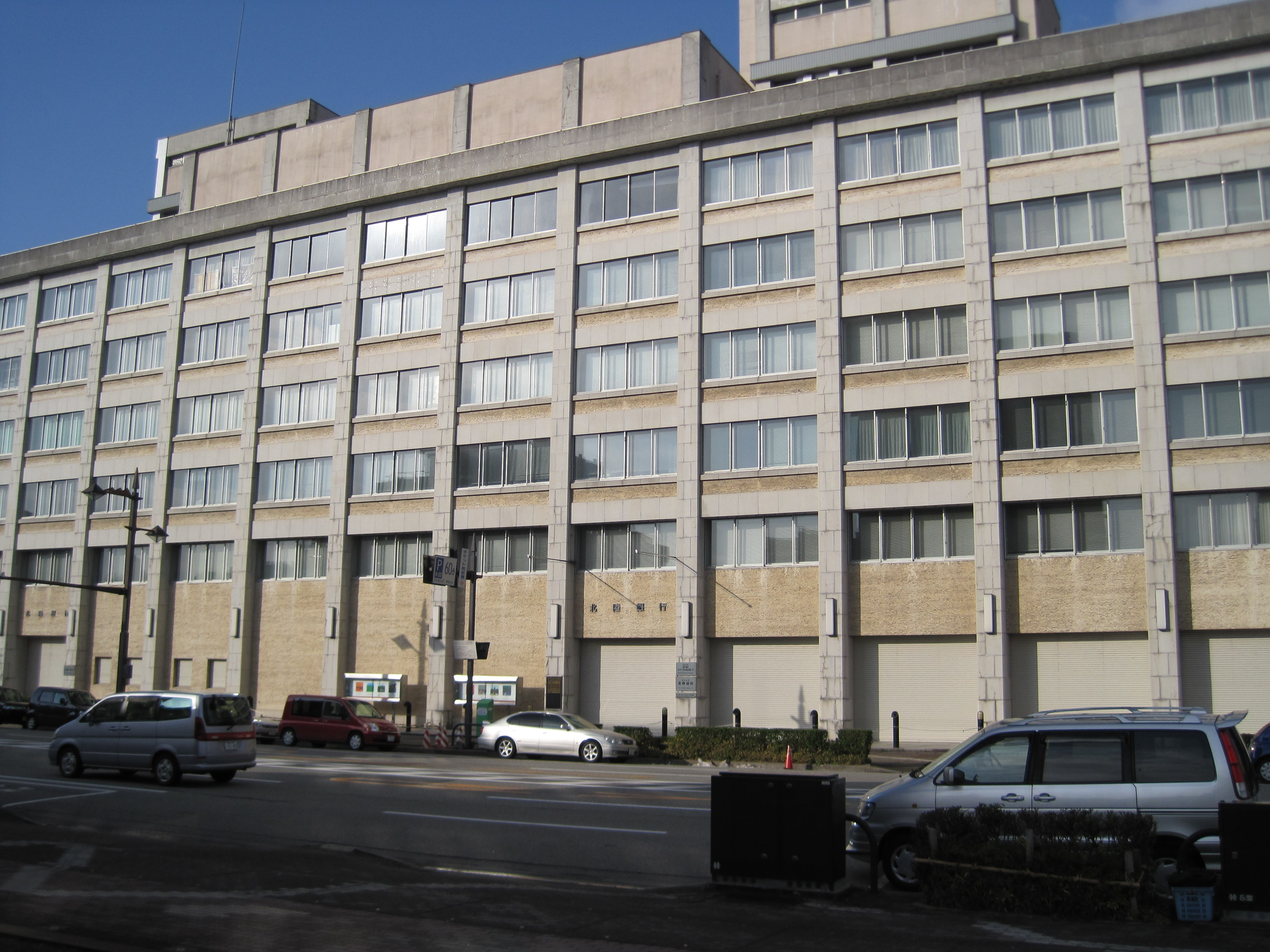 Hokuriku Bank Headquarters (Bank of Japan Toyama local office) in Toyama, Toyama prefecture